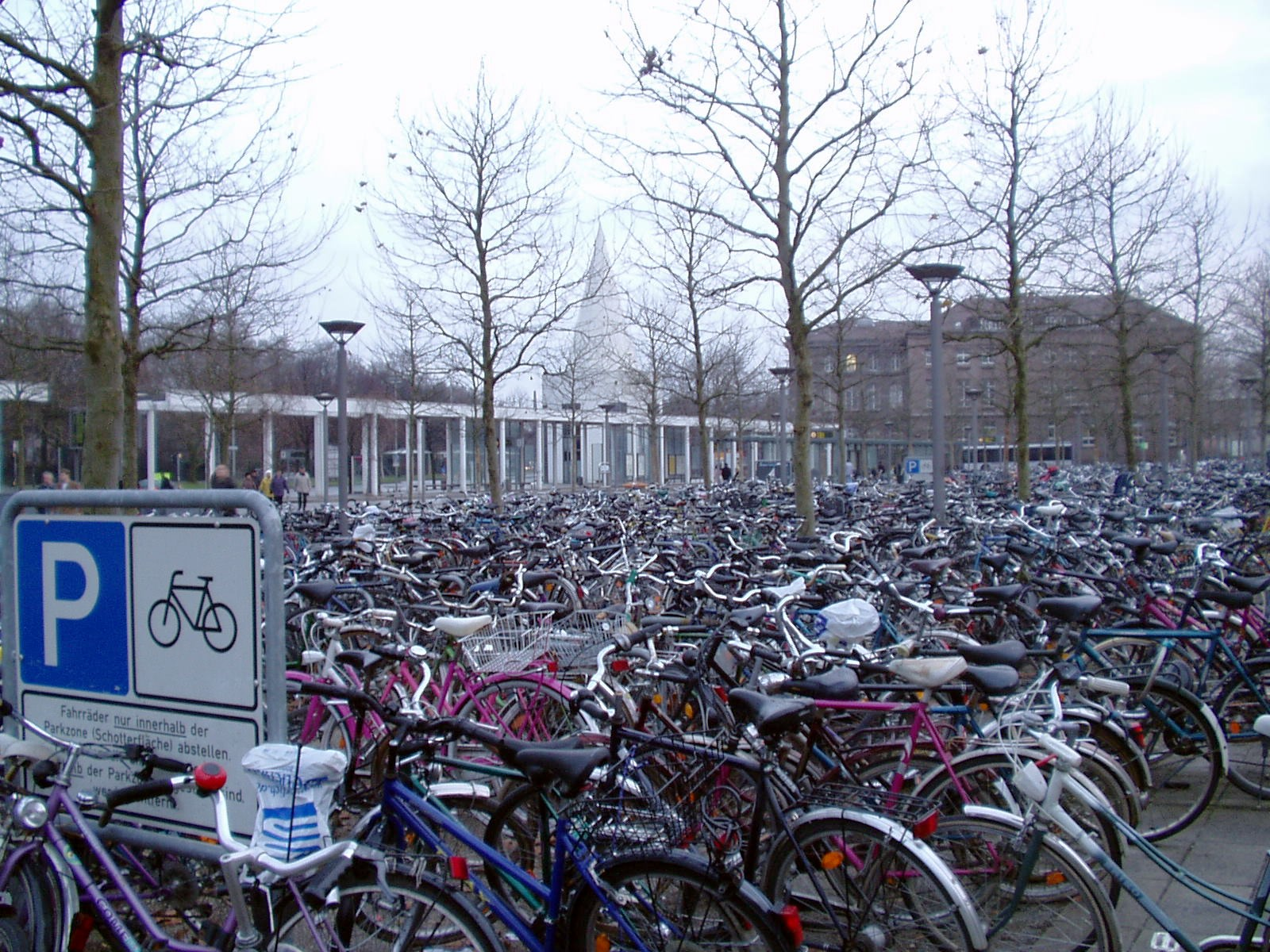 Cyclists Göttingen: impression of the station forecourt